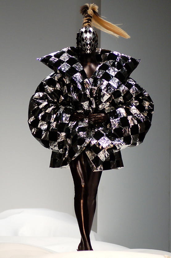 Gareth Pugh design (Spring 2007 collection) at London fashion Week